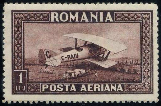 1928 airmail stamp from Romania